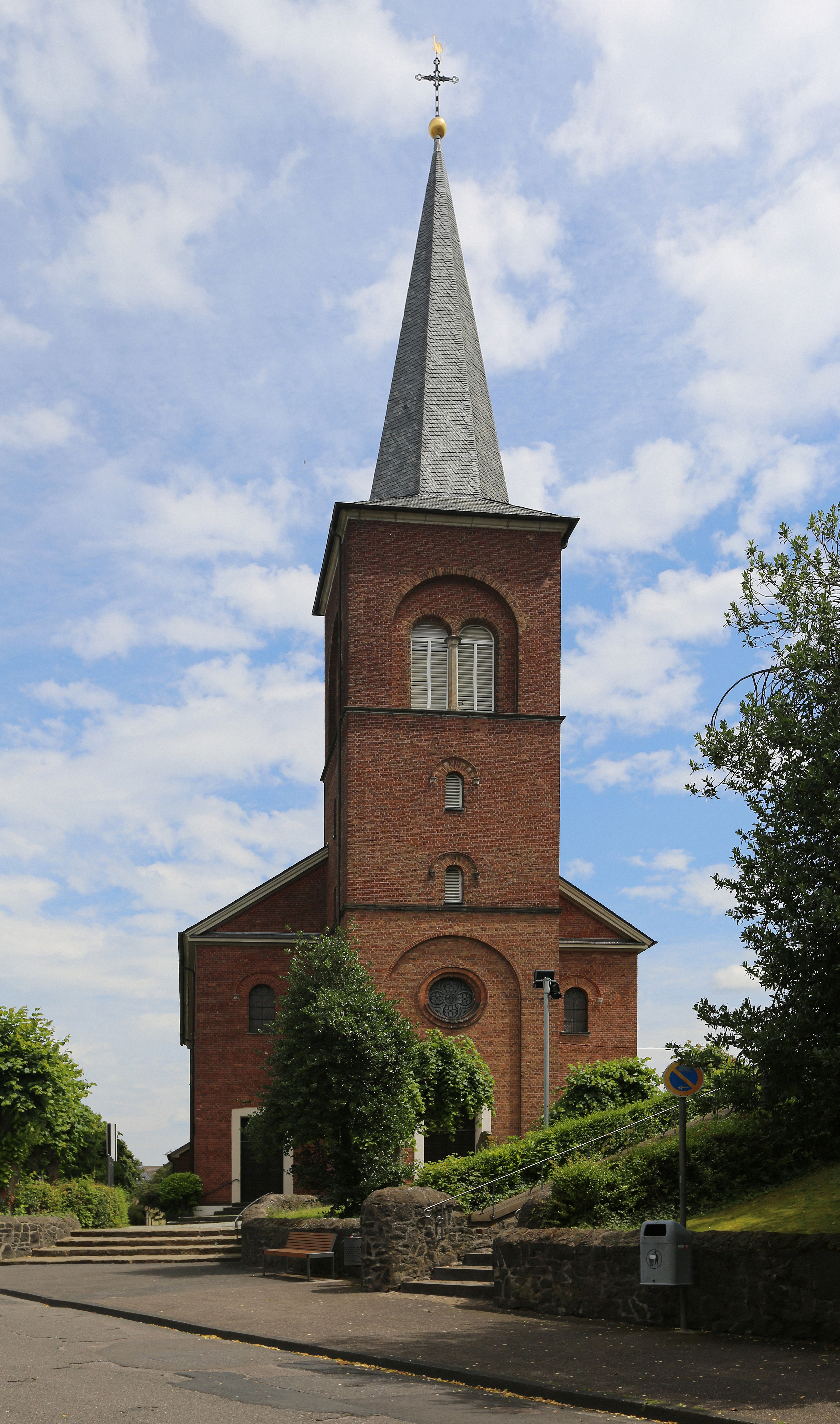 Sechtem (Bornheim), St. Gervasius and St. Protasius church